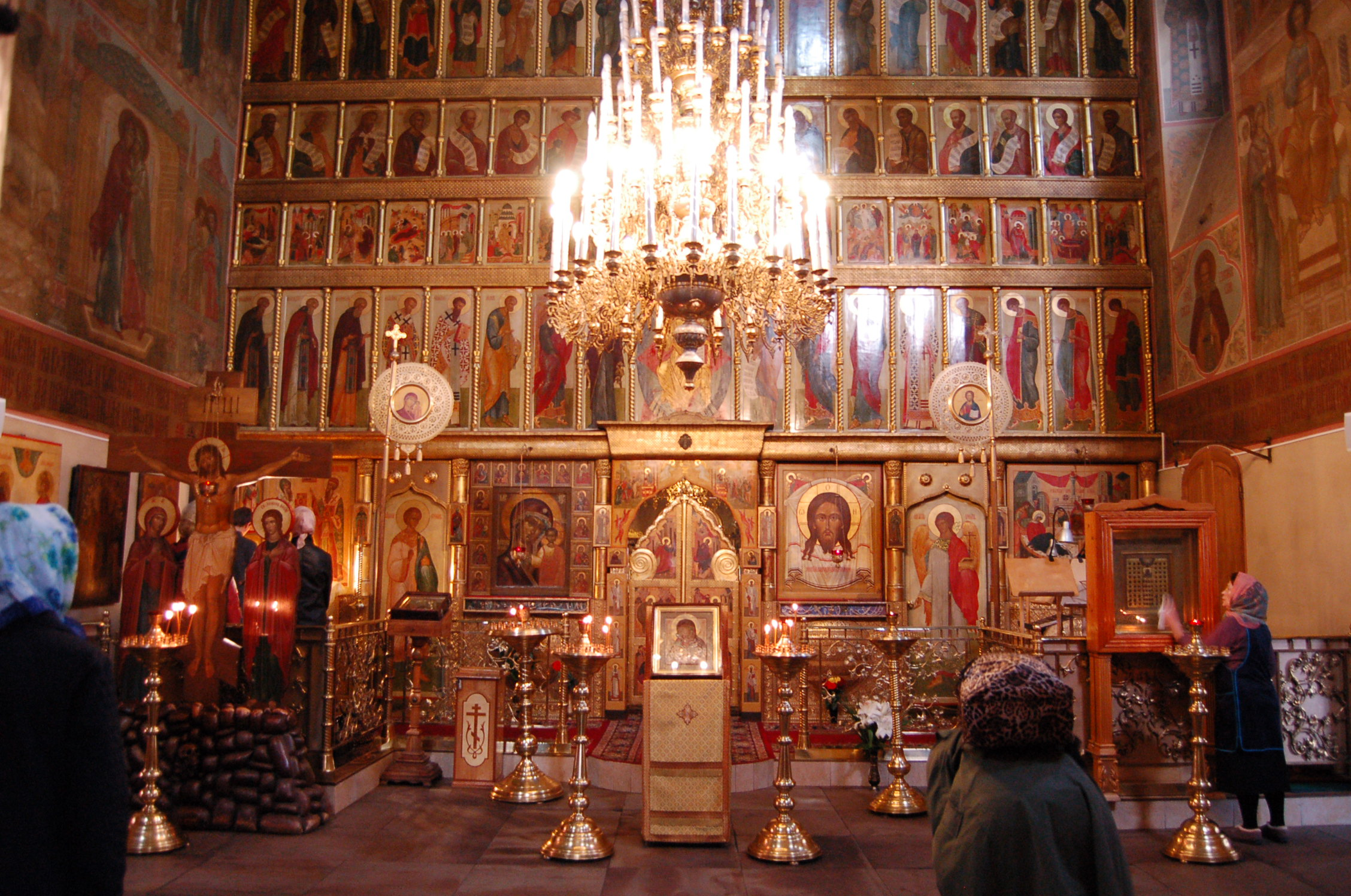 Moscow Churches, photographed September 2015 Kazan Cathedral, Red Square